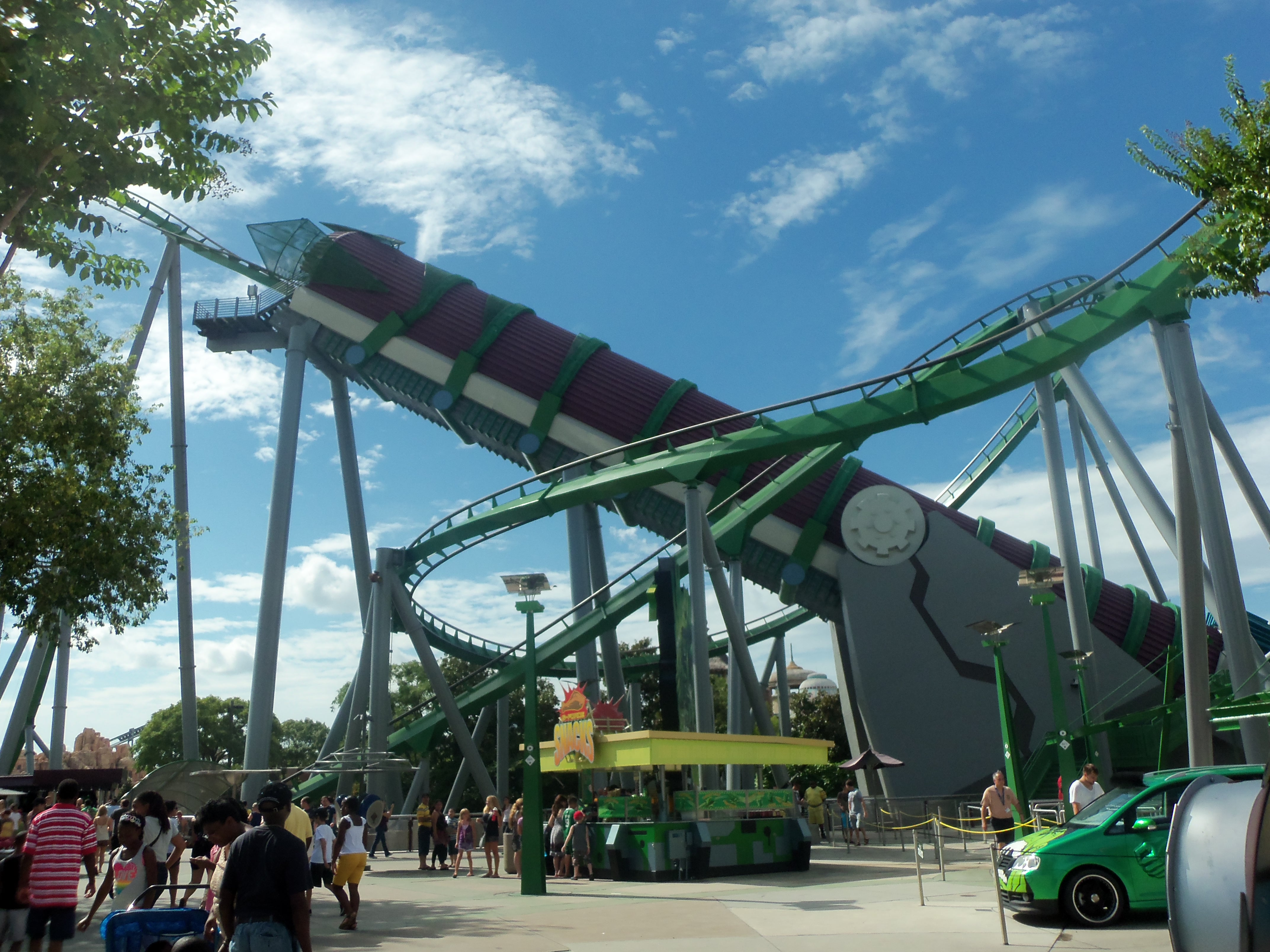 The tunnel which launches The Hulk.